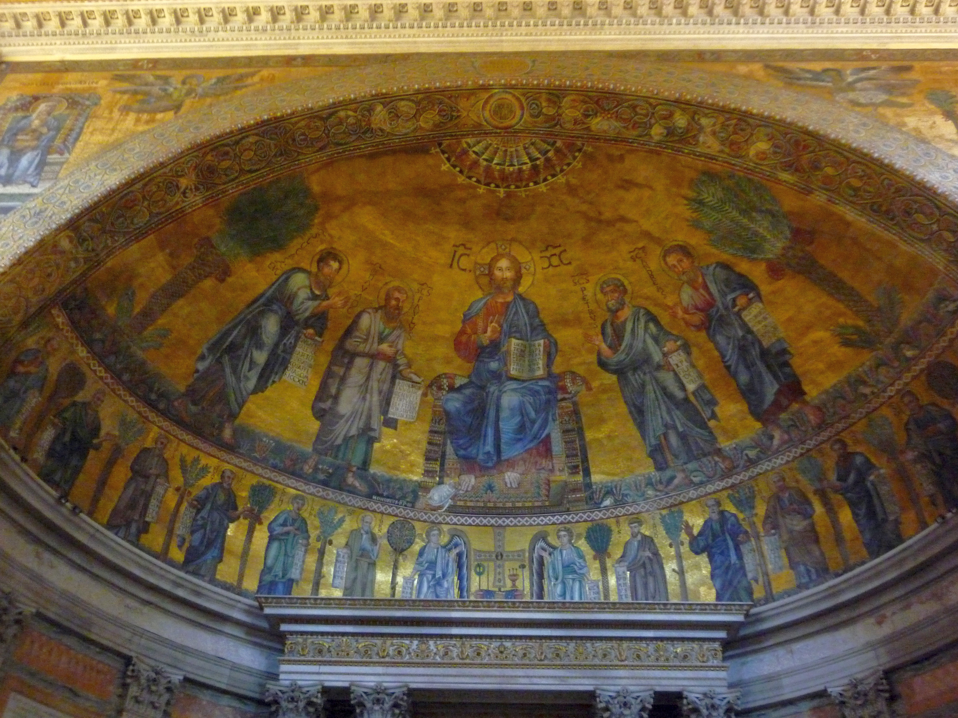 Basilica of Saint Paul Outside the Walls - Apse mosaic